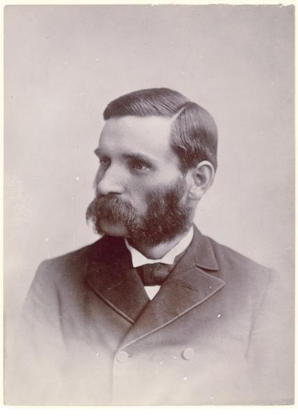 Photograph of Frederick Holder, Premier of South Australia and member of the first Australian Parliament.